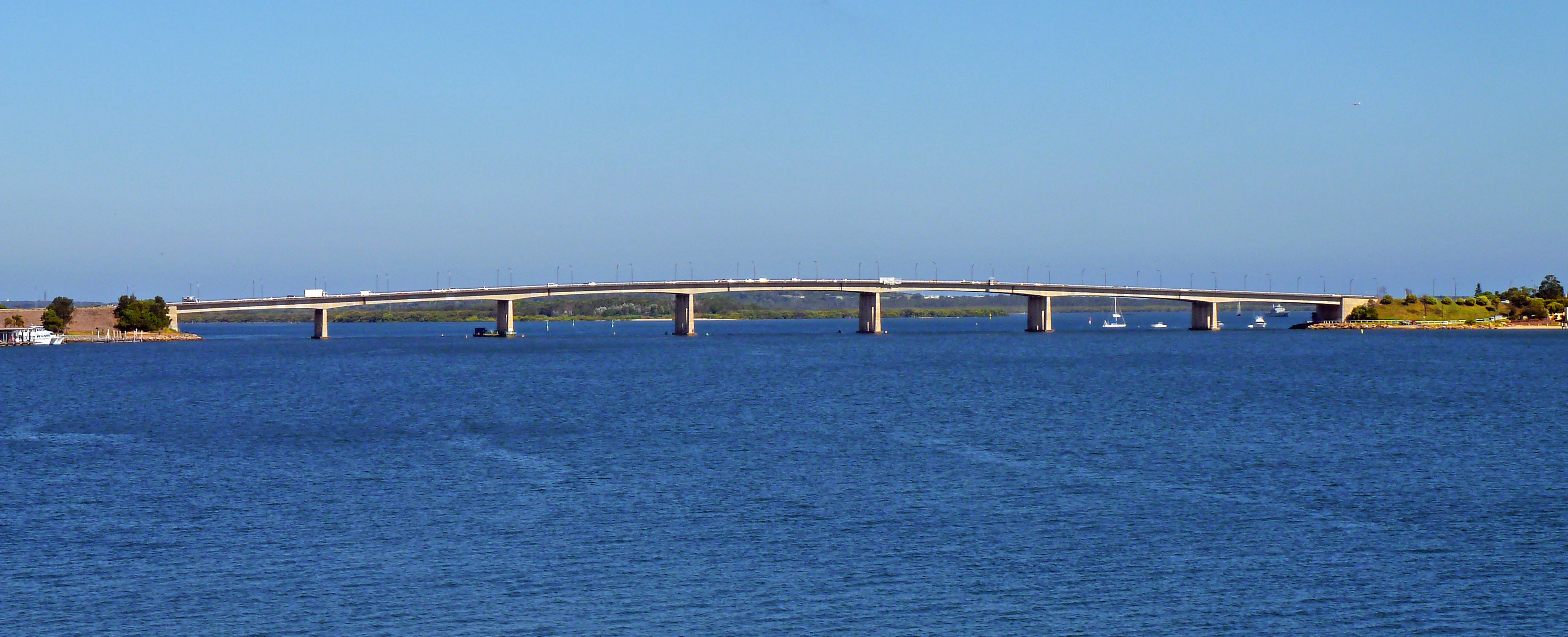 Captain Cook Bridge, from Tom Uglys Bridge, Blakehurst, New South Wales, Australia.